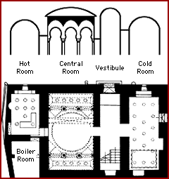 Front and plan elevations of the 14th century Moorish Baths at the Gibraltar Museum